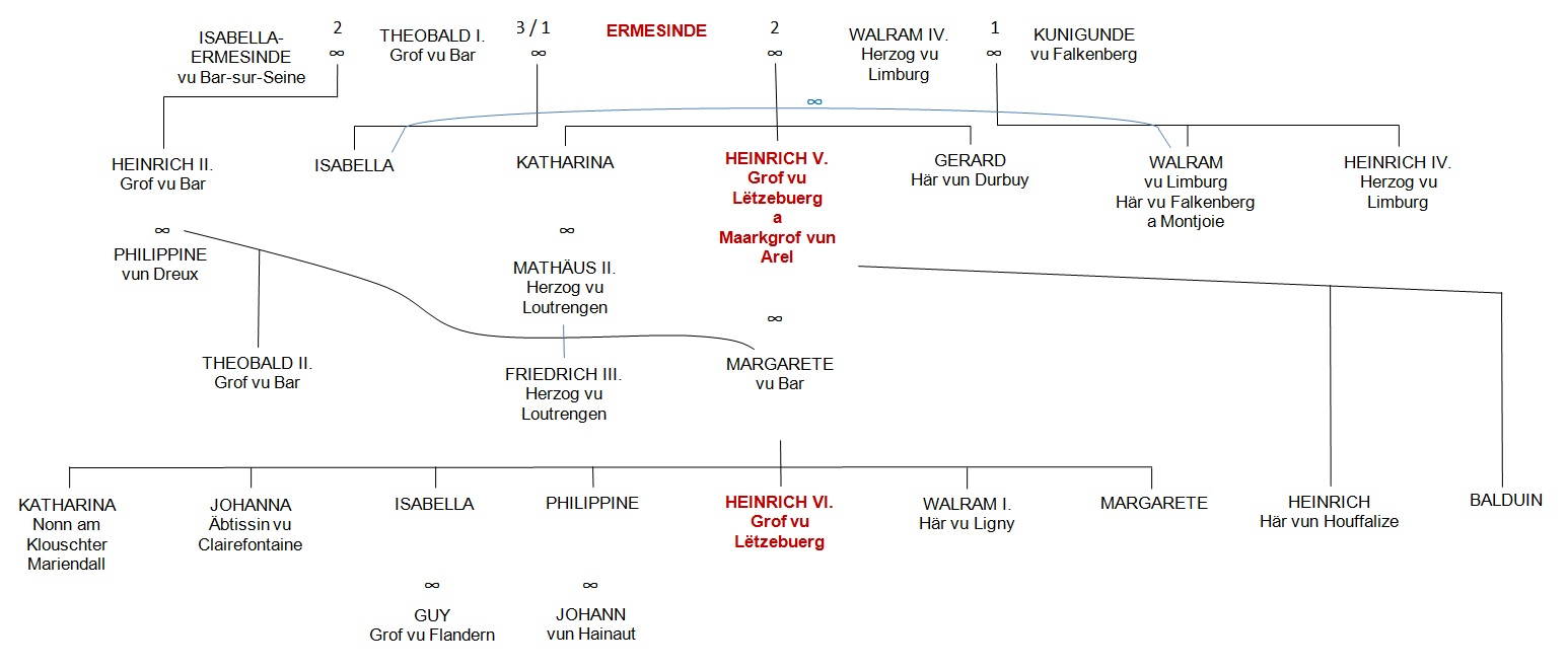 Genealogy of Henry V, Count of Luxembourg.